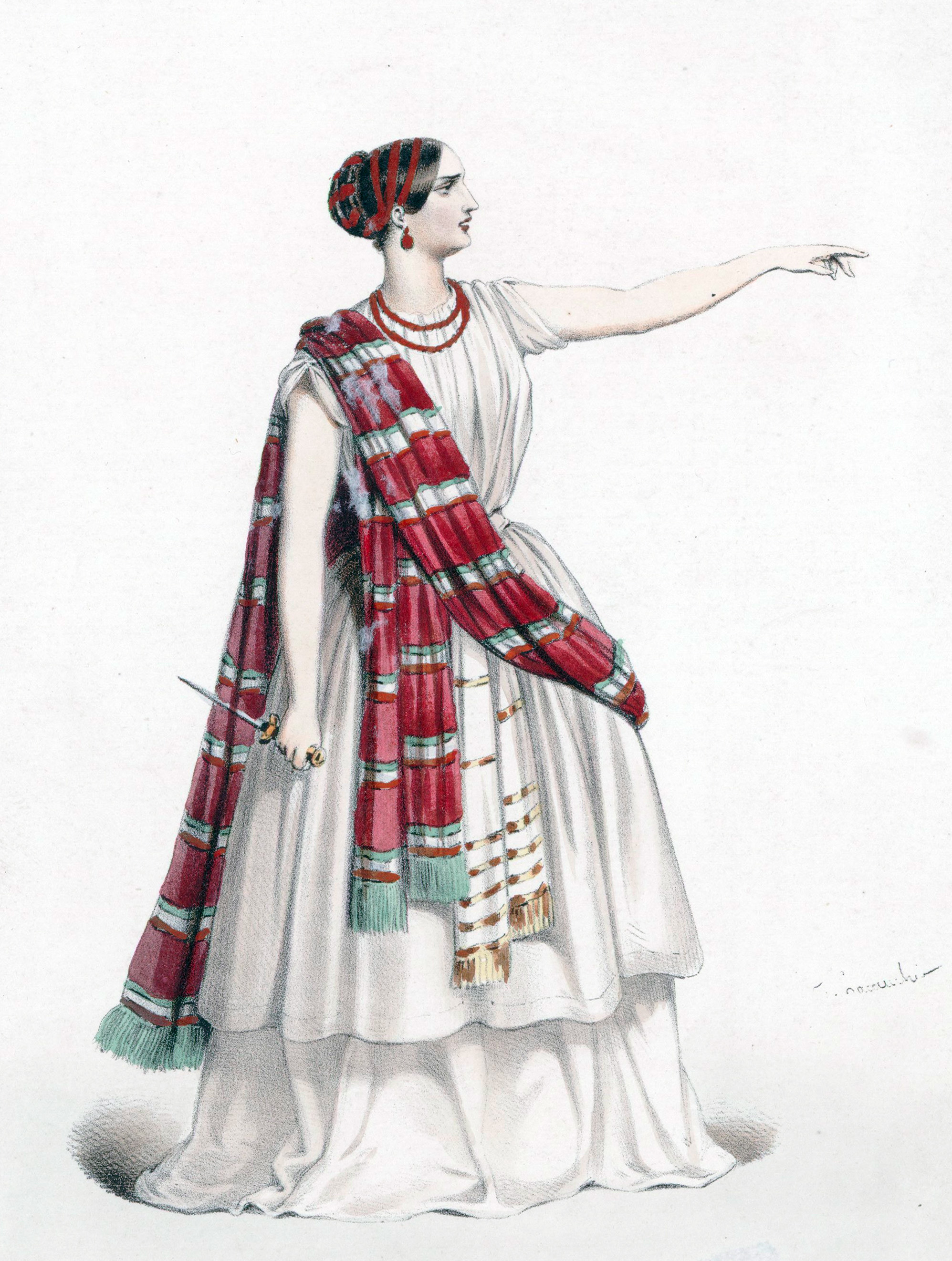 The French mezzo-soprano Rosine Stoltz as she appeared when creating the role of Marie in the pastiche opera Robert Bruce with music by Rossini arranged by Niedermeyer and costumes designed by Paul Lormier